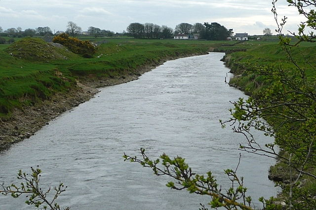 River Clare (Abhainn an Chláir) Looking south from Daly's Bridge. The river runs in straight lines in this area, between floodbanks, and looks as though it may have been channelled sometime in the past.